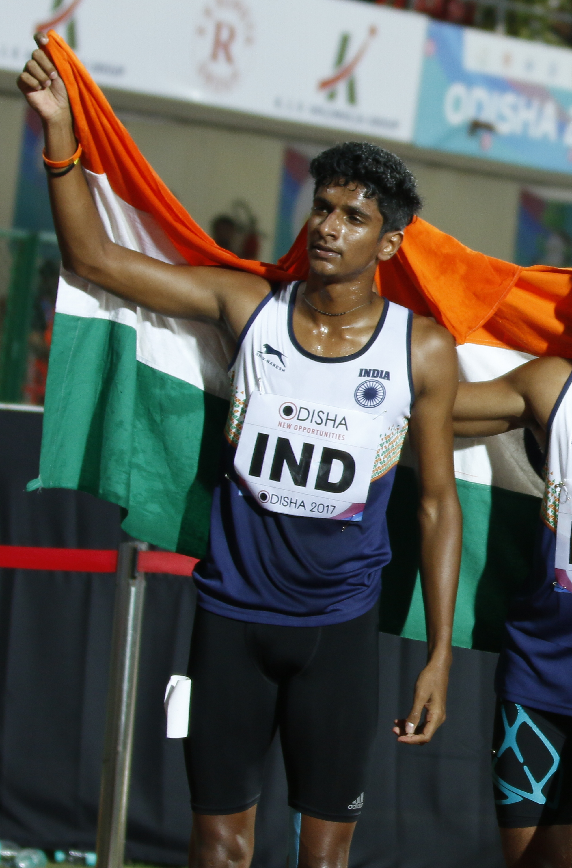 Athletes during 22nd Asian Athletics Championships in Bhubaneswar.